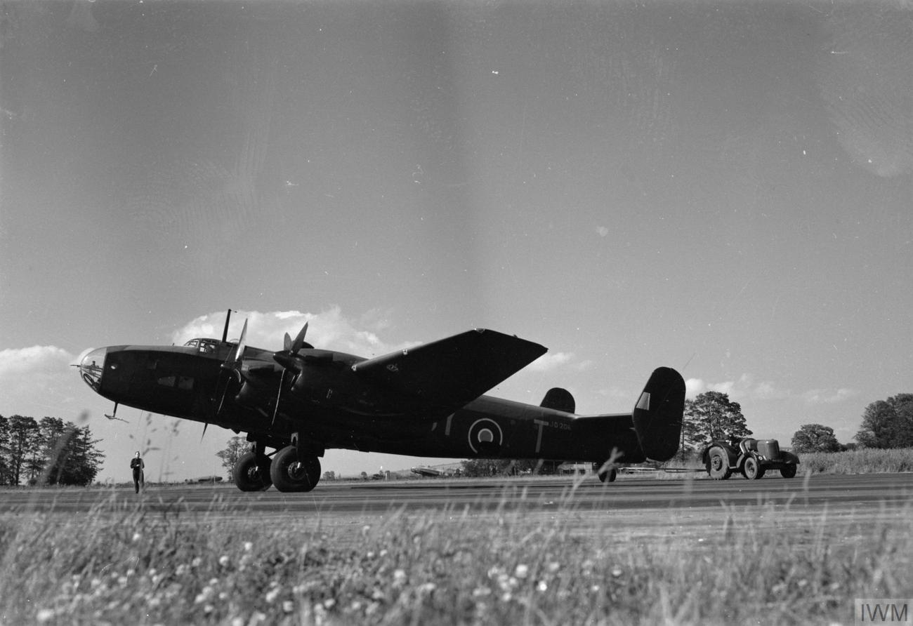 IWM caption : Handley Page Halifax Mark II Series1A, JD206 'DY-T' of No. 102 Squadron RAF, about to be towed from its dispersal by a David Brown tractor at Pocklington, Yorkshire. This aircraft was hit by anti-aircraft fire on 22 June 1943, and ditched off Overflakkee Island, Holland.